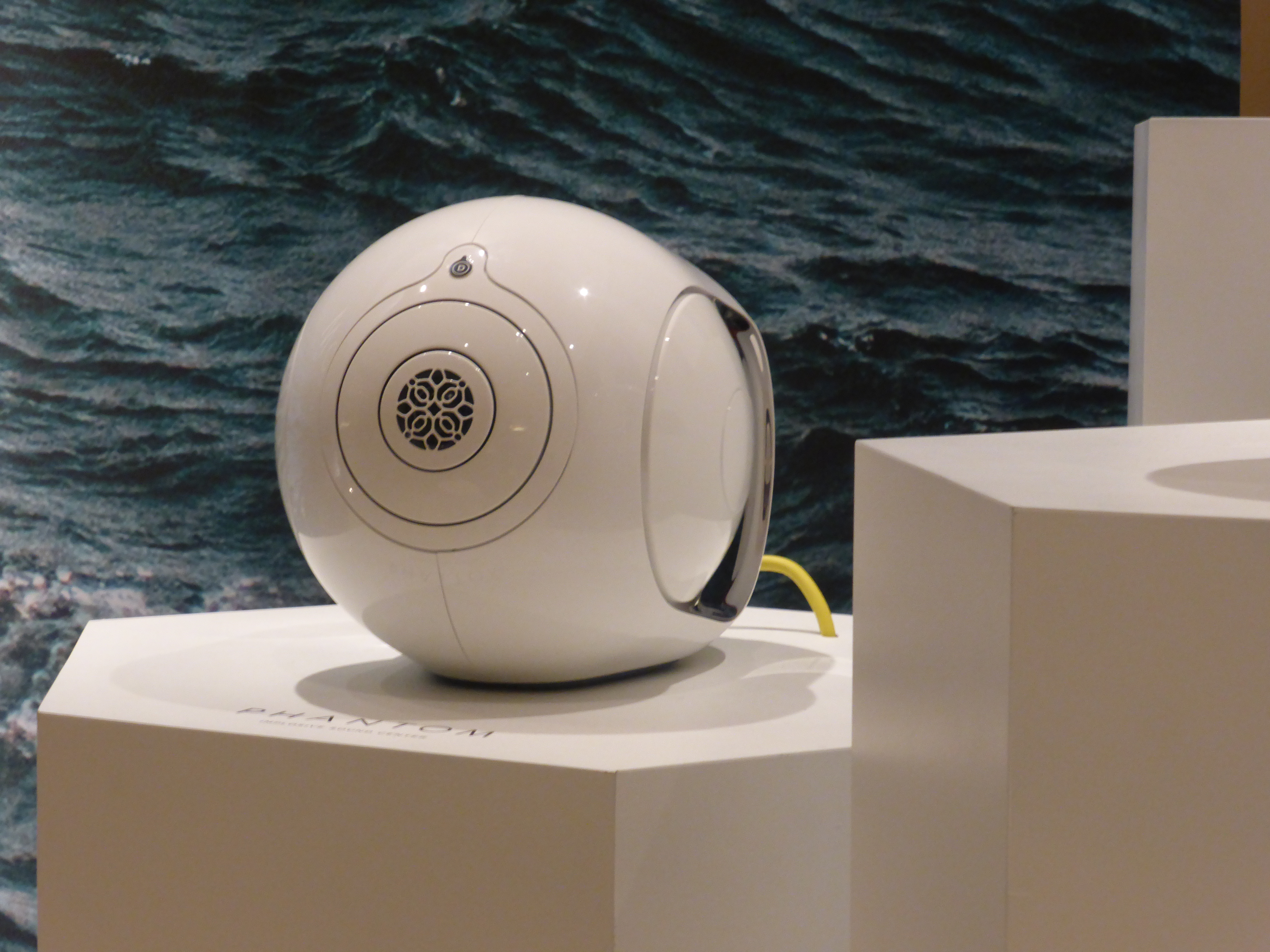 Devialet Phantom Speaker at CES 2015